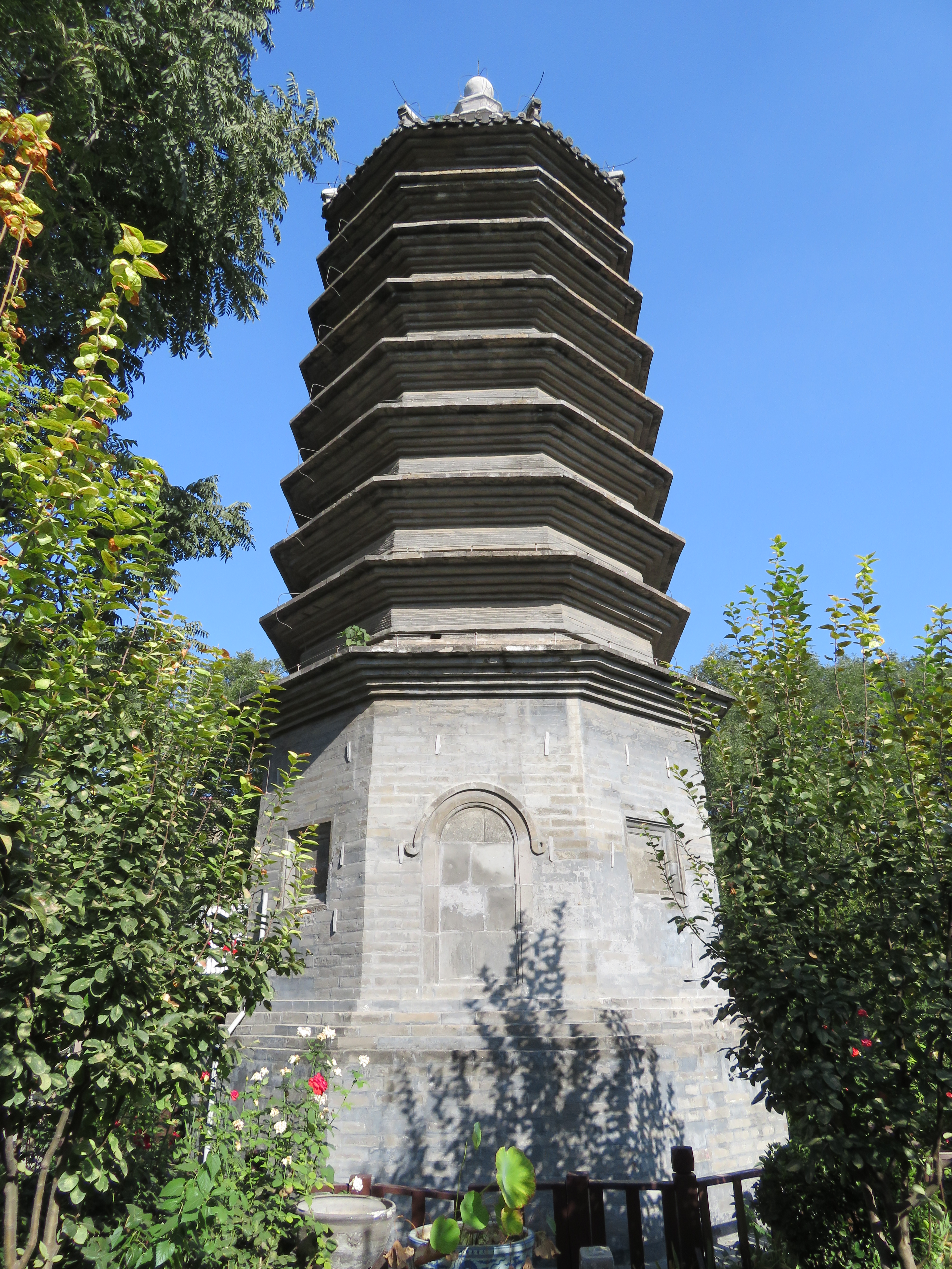 Pagoda of Monk Wansong or the Old Man of Wansong (Wansong Laoren Ta 万松老人塔) at Xisi, Beijing. View from the west.